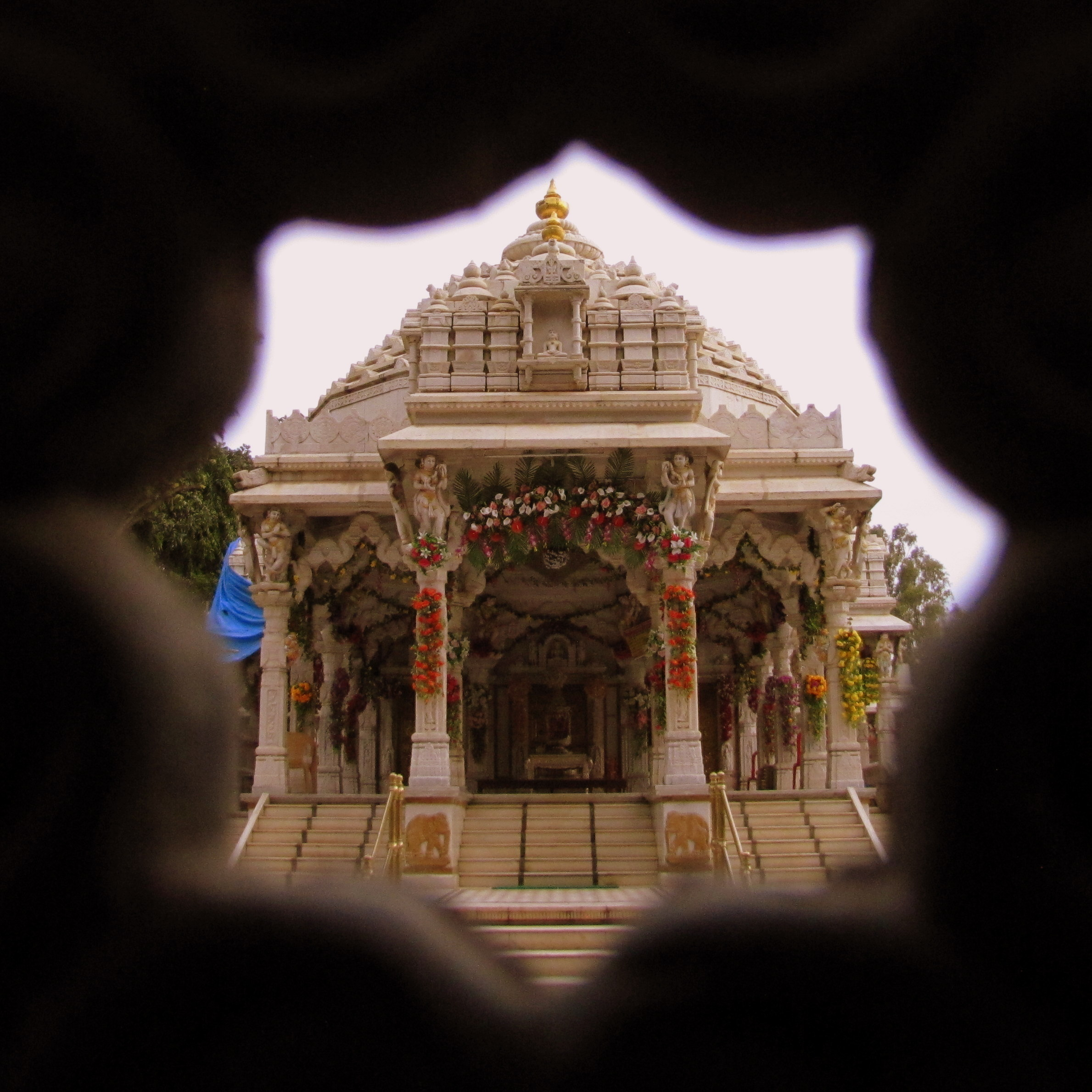 This shot was taken at Jayanagar, Bangalore, India. The Jain Temple.